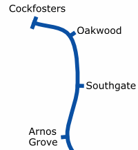 Made from LU geog maps project image